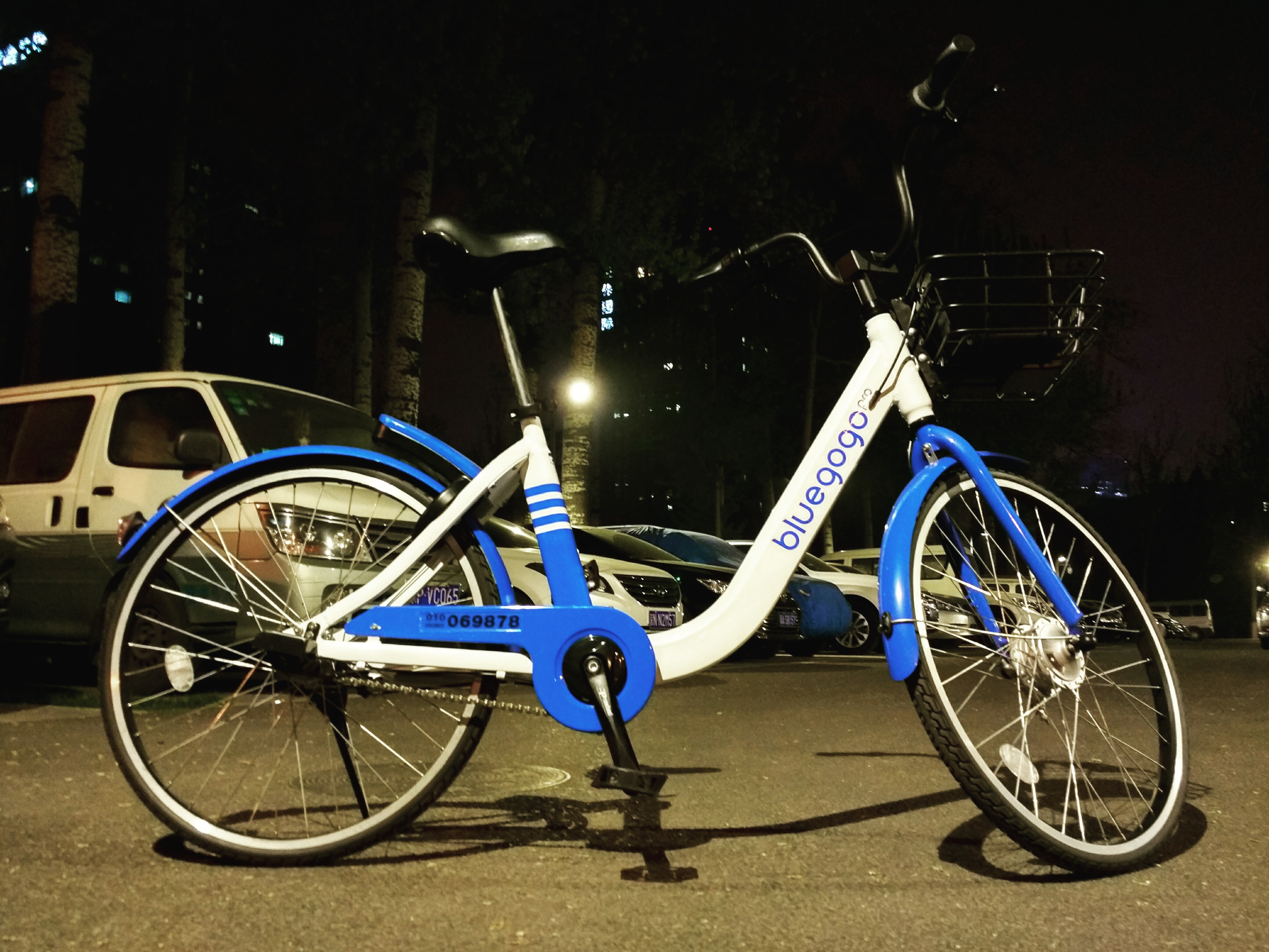 A bluegogo Pro in Beijing with ID No. 010069878